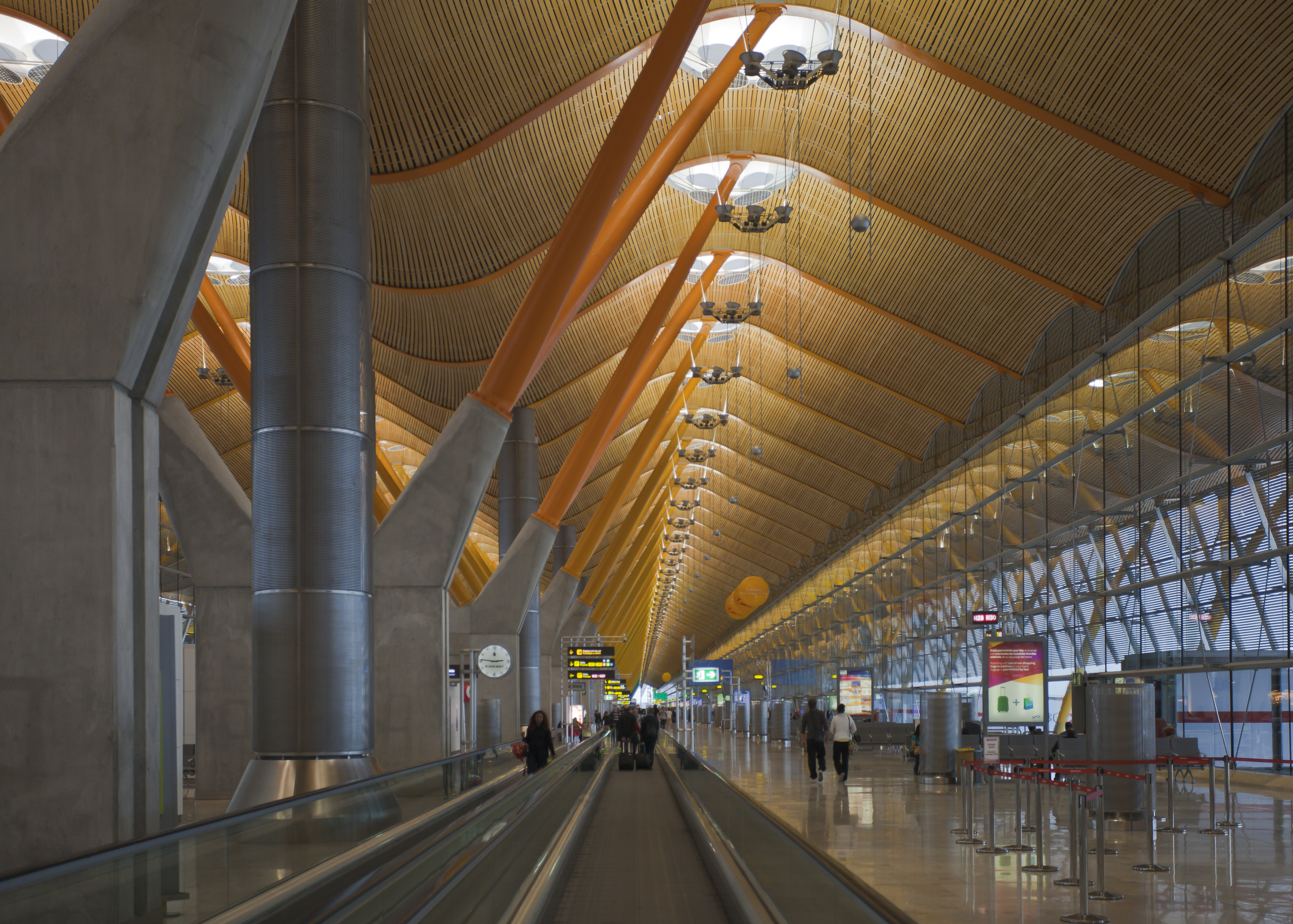 Terminal 4 of the airport Madrid-Barajas, Spain